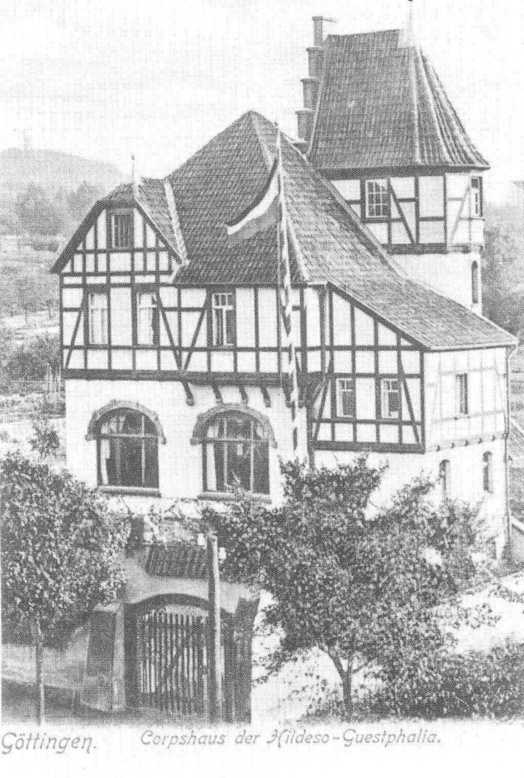 House of the Göttingen student fraternity Corps Hildeso-Guestphalia, Haus des Corps Hildeso-Guestphalia Göttingen